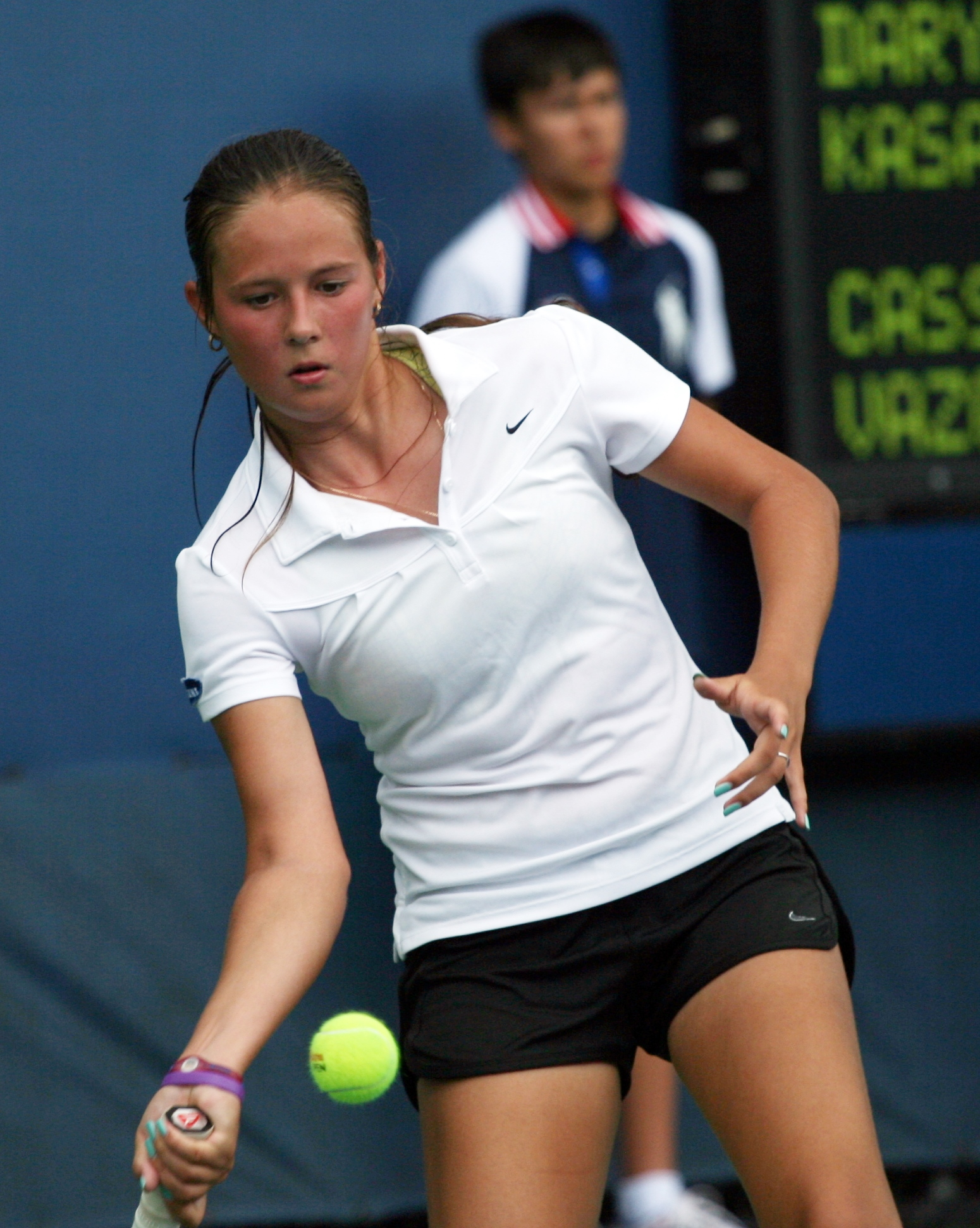 Darya Kasatkina at the 2013 US Open